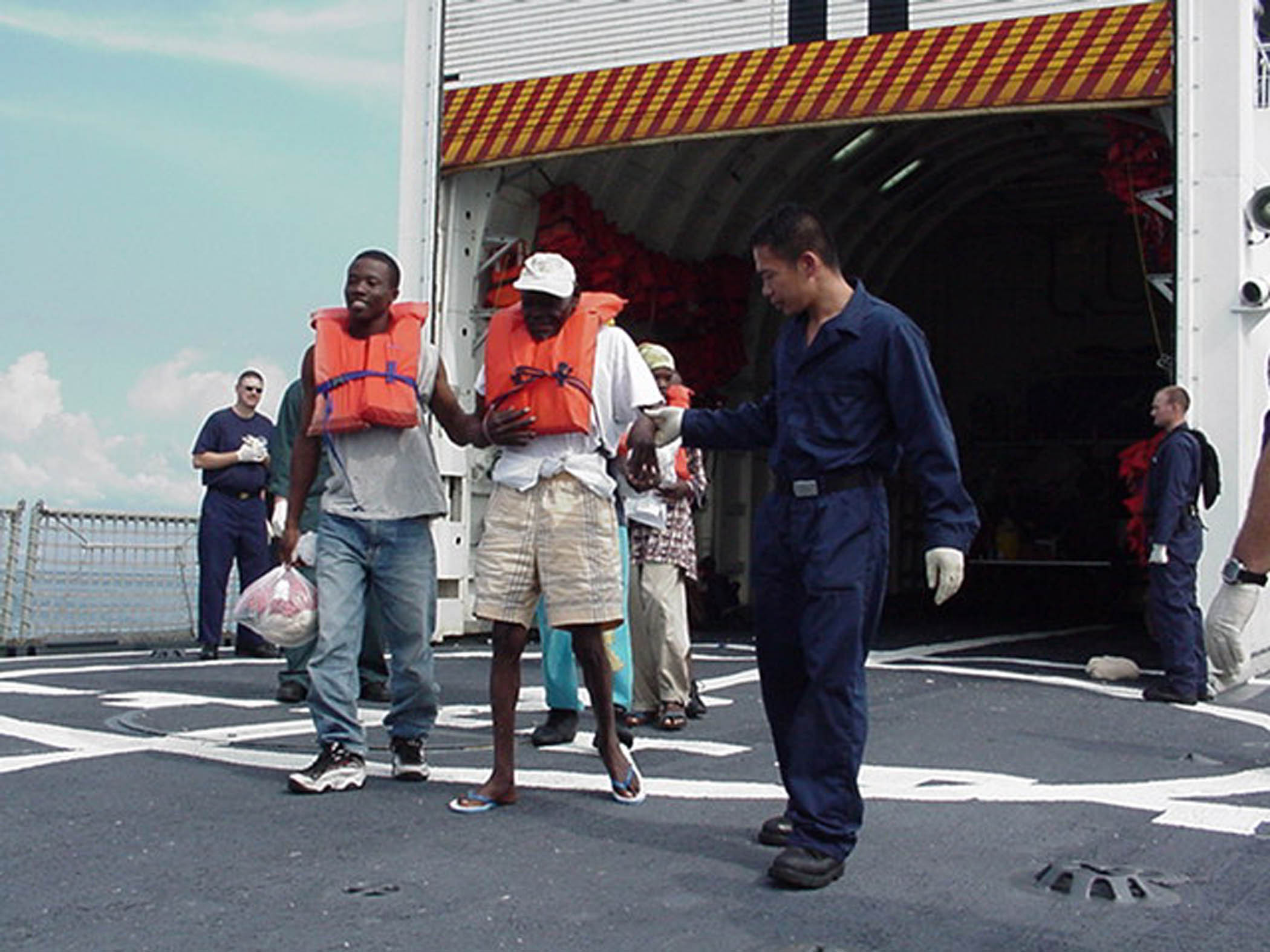 PORT AU PRINCE, Haiti (Dec. 22)--Haitian migrants are escorted off the Coast Guard Cutter Tampa's fantail to an awaiting Haitian Coast Guard vessel during repatriation. U.S. COAST GUARD PHOTO